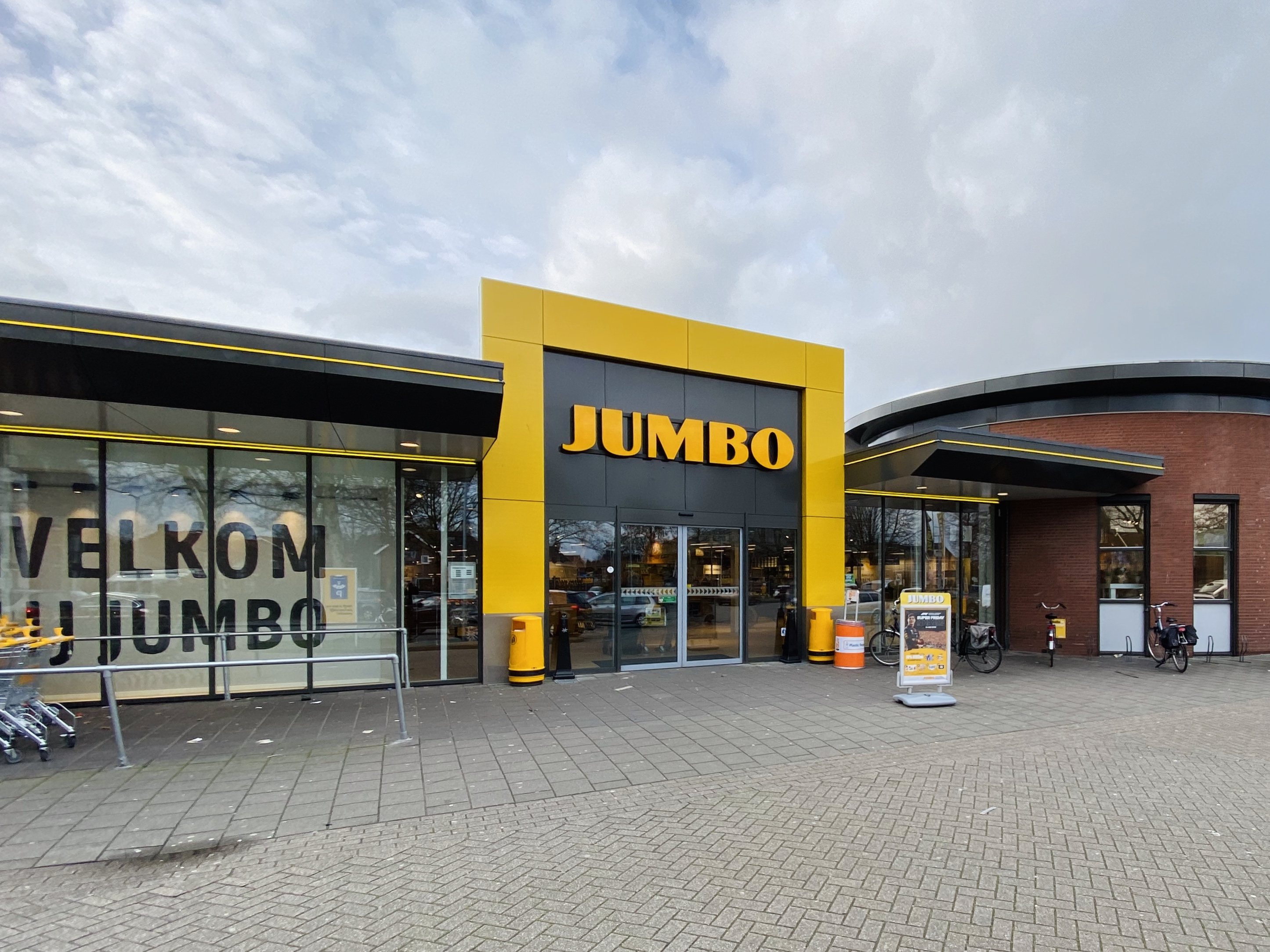 Entrance of a Jumbo Supermarket located in Veghel, the Netherlands.